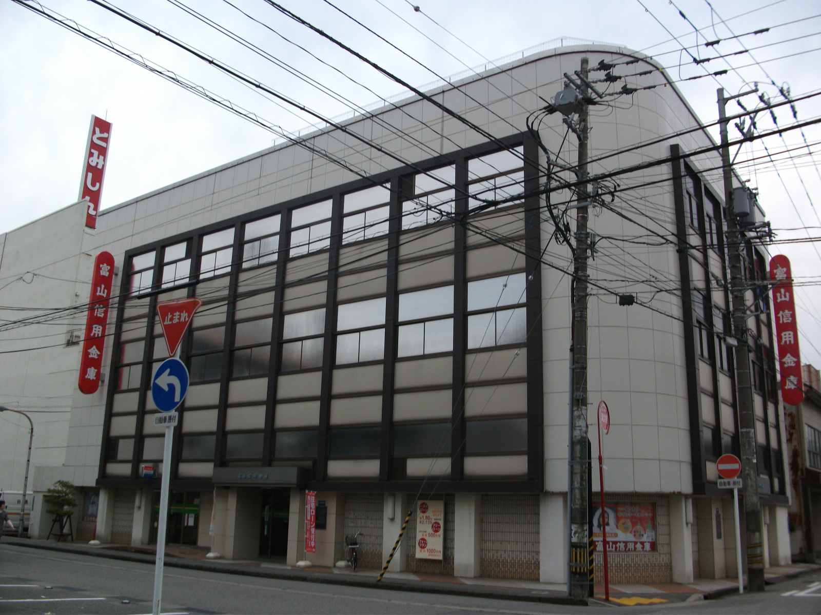 Toyama Shinkin Bank Headoffice (1-32 1Choume Muromachi-Douri Toyama-City Toyama-Prefecture JAPAN)